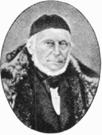 Johan Rabbén (1781-1865), Swedish physician